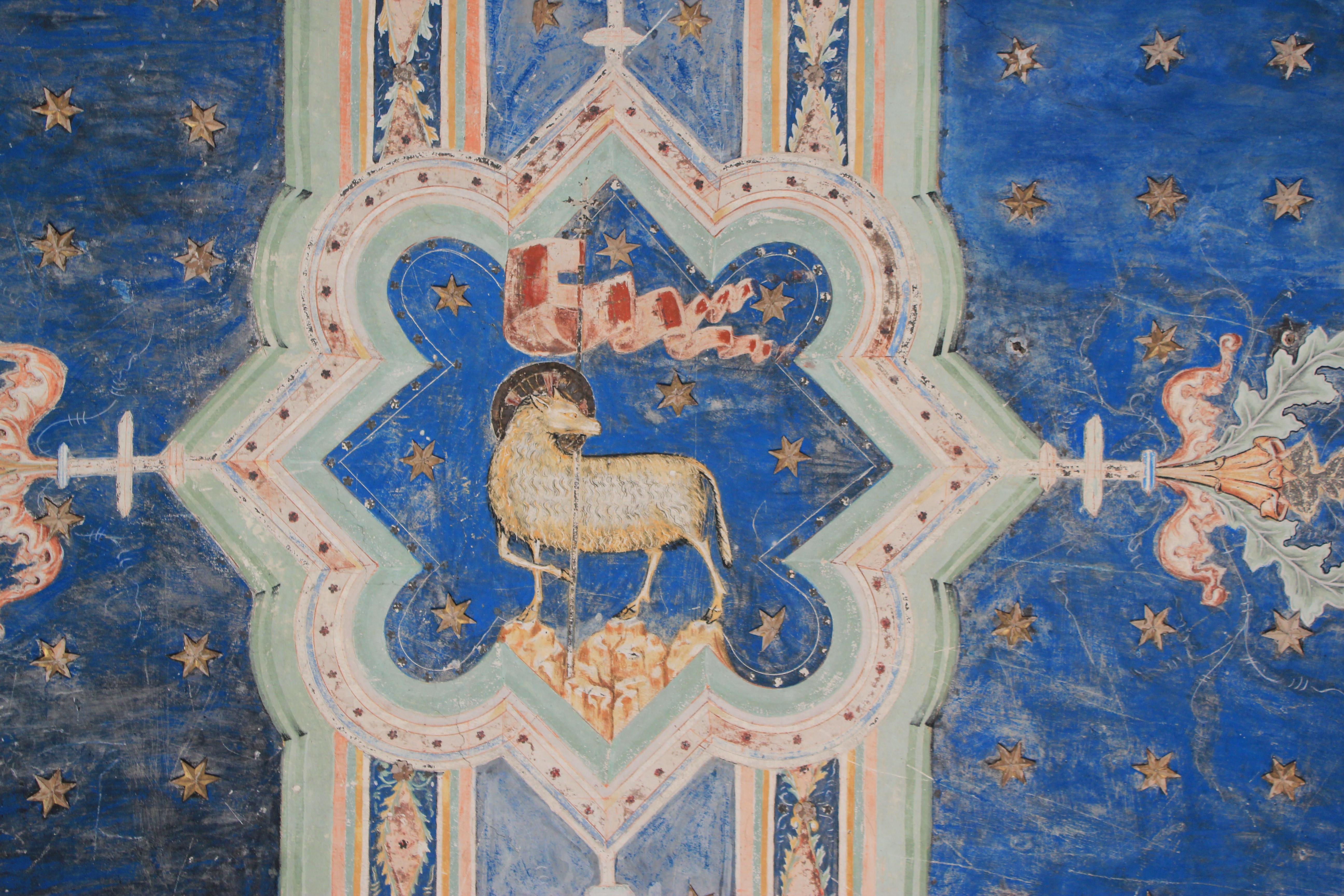 Gurk Cathedral Fresco in the foyer